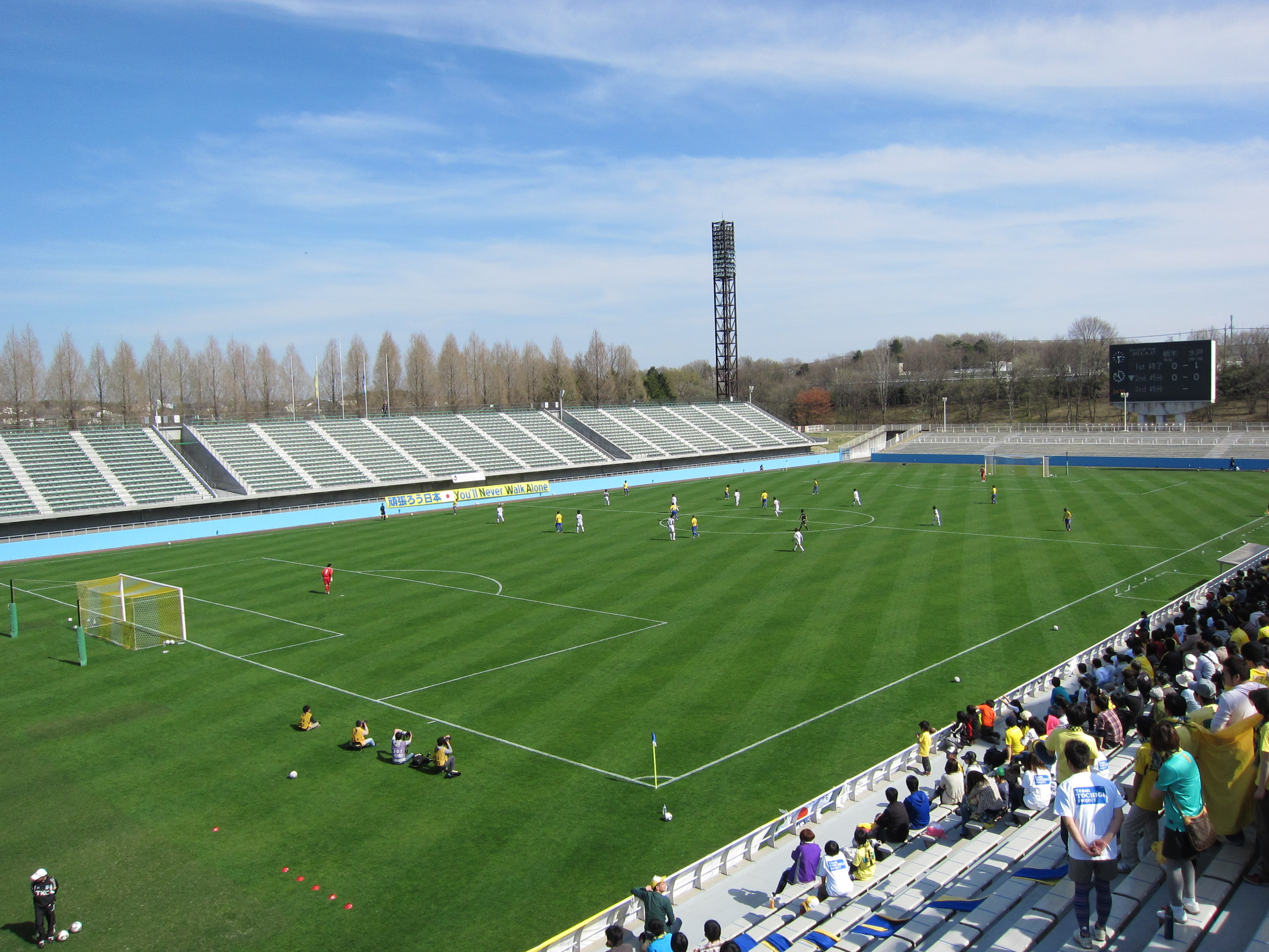 Tochigigreen Stadium